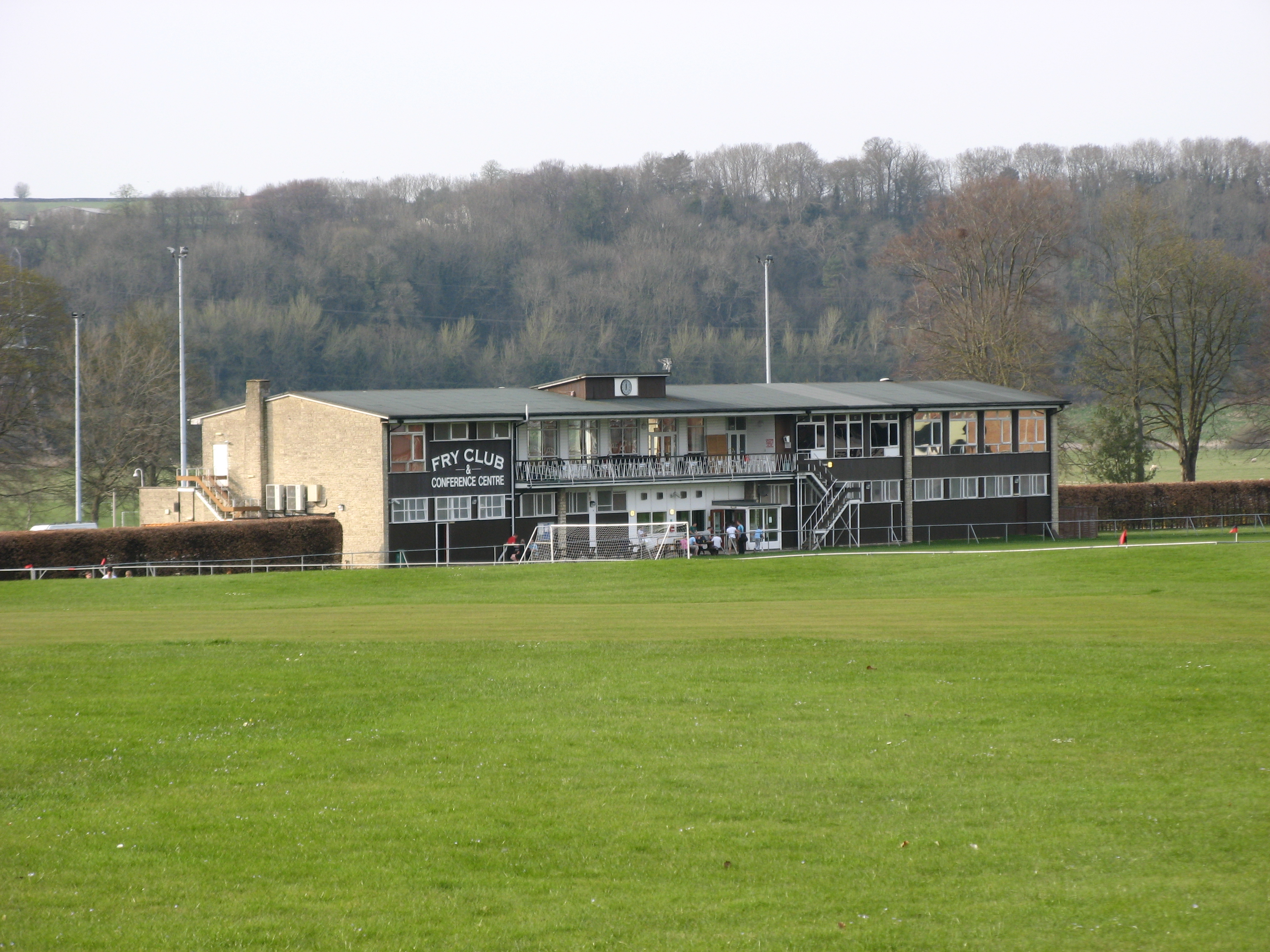 Fry Club and Conference Centre on Cadbury's Somerdale Factory campus, Keynsham. The factory is to the right of this view.